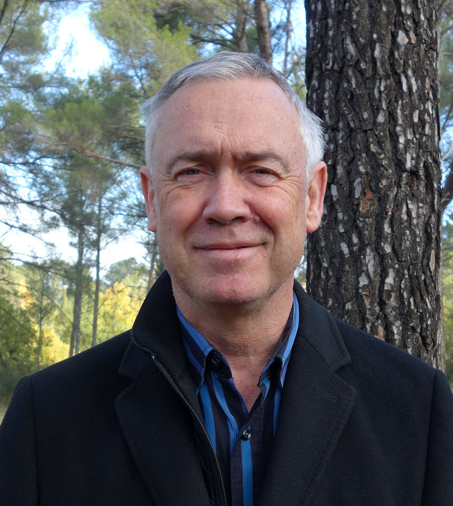 Portrait of English literature professor Jean Viviès